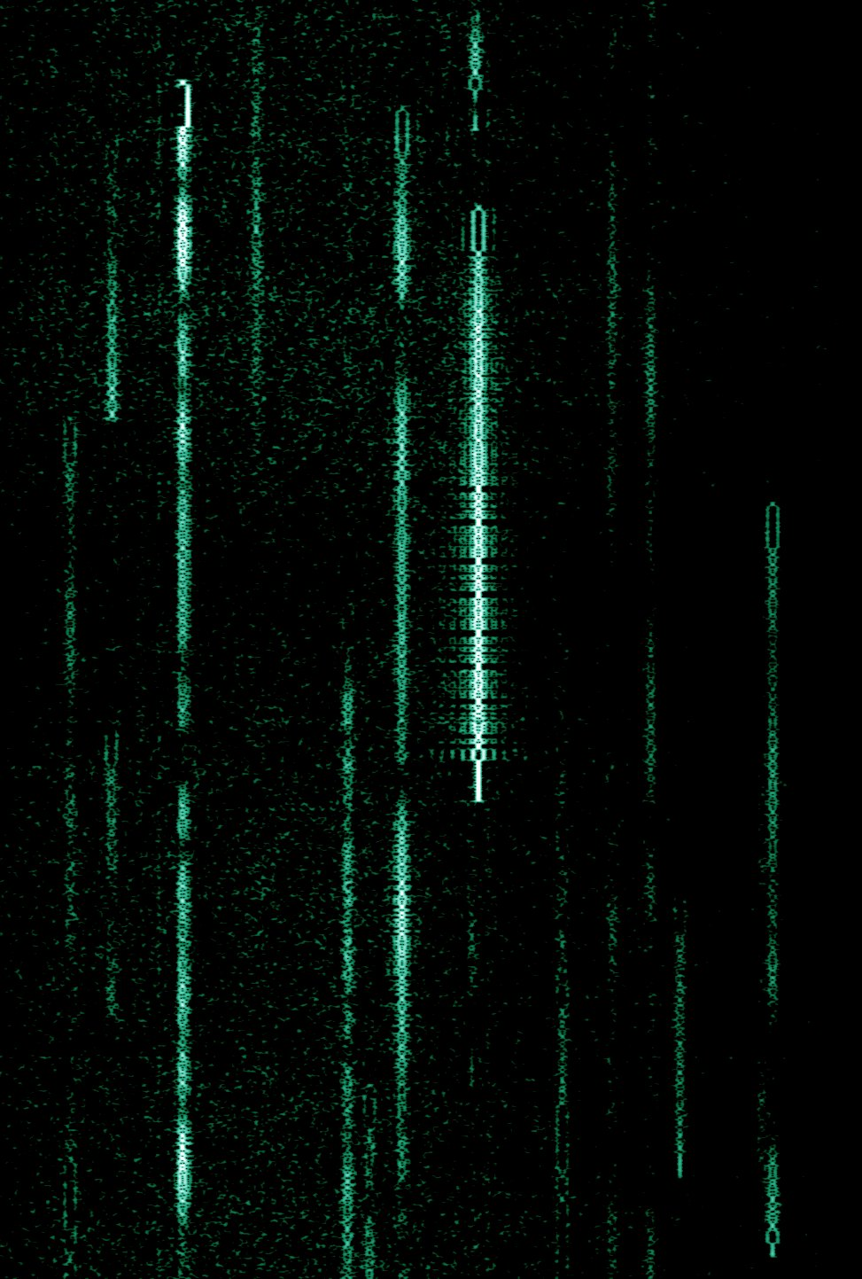 Multiple PSK31 transmissions on the 20m digital modes band at around 14.07 MHz. Time runs from up to down, frequency from left to right.